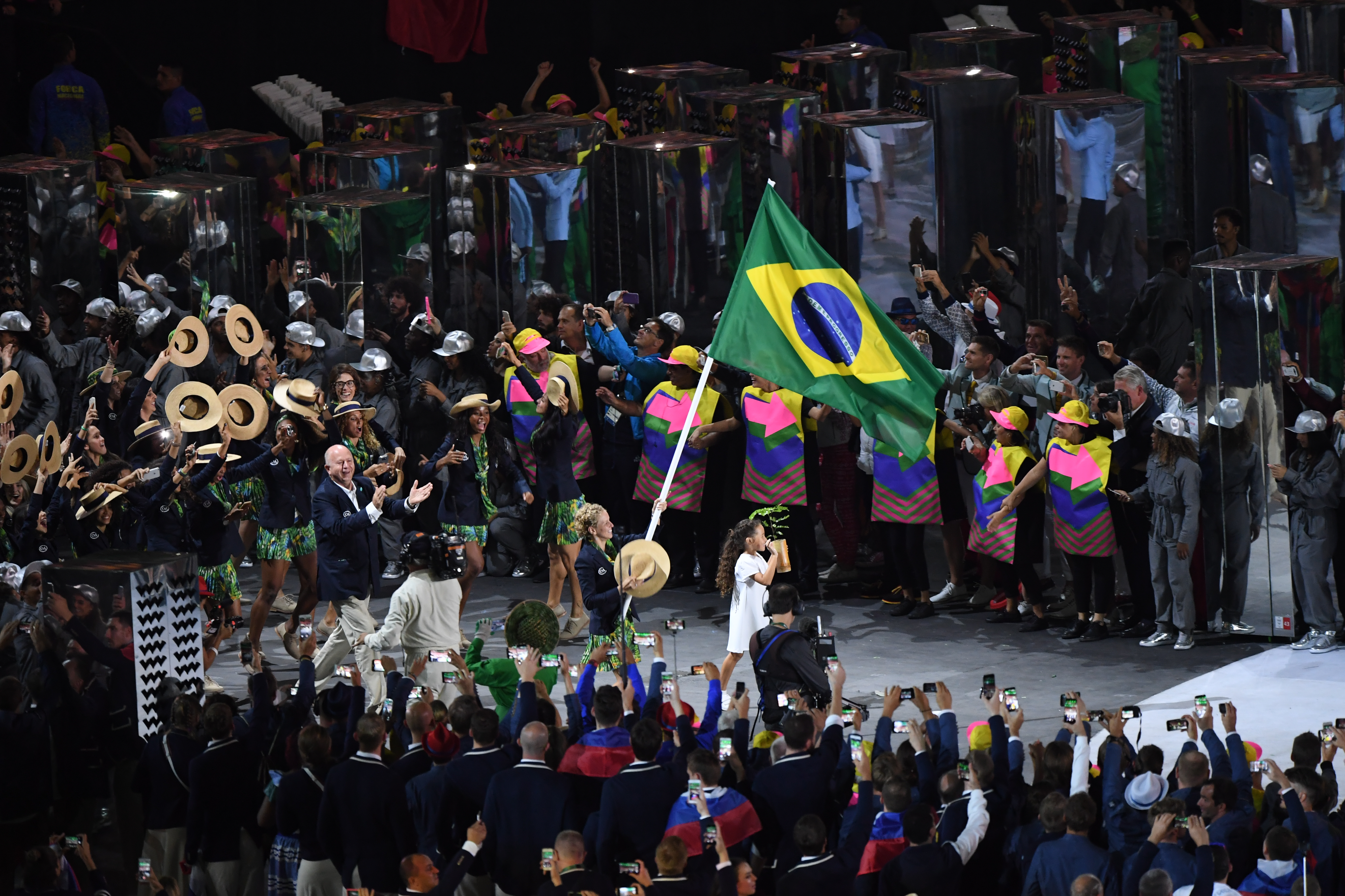 A scene from the Rio 2016 Olympic Games Opening Ceremony on Aug. 5 at Maracana Stadium in Rio de Janeiro, Brazil. U.S. Army photo by Tim Hipps, IMCOM Public Affairs